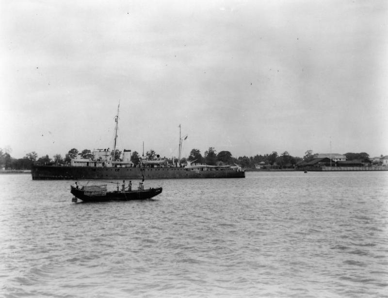 Photograph of Royal Indian Navy sloop HMIS Indus in Akyab harbour, Burma.